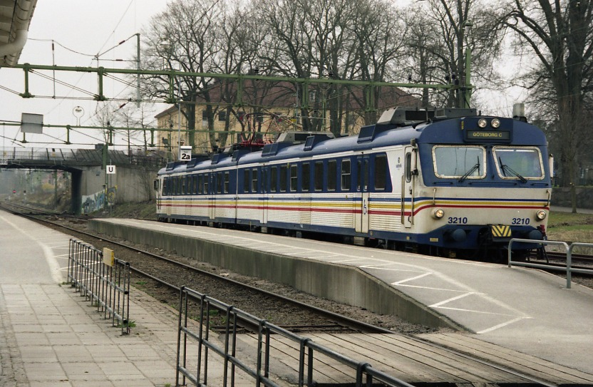 ASEA X10 train in the old GL-colors standing on the station in Vänersborg, Sweden